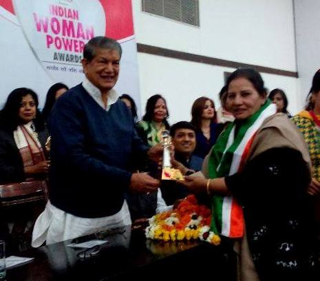 Mrs Roohi Zuberi Advocate receiving Indian Women Power Award from Shri Harish Rawat Union Minister for her role in SOcial Work and Politics